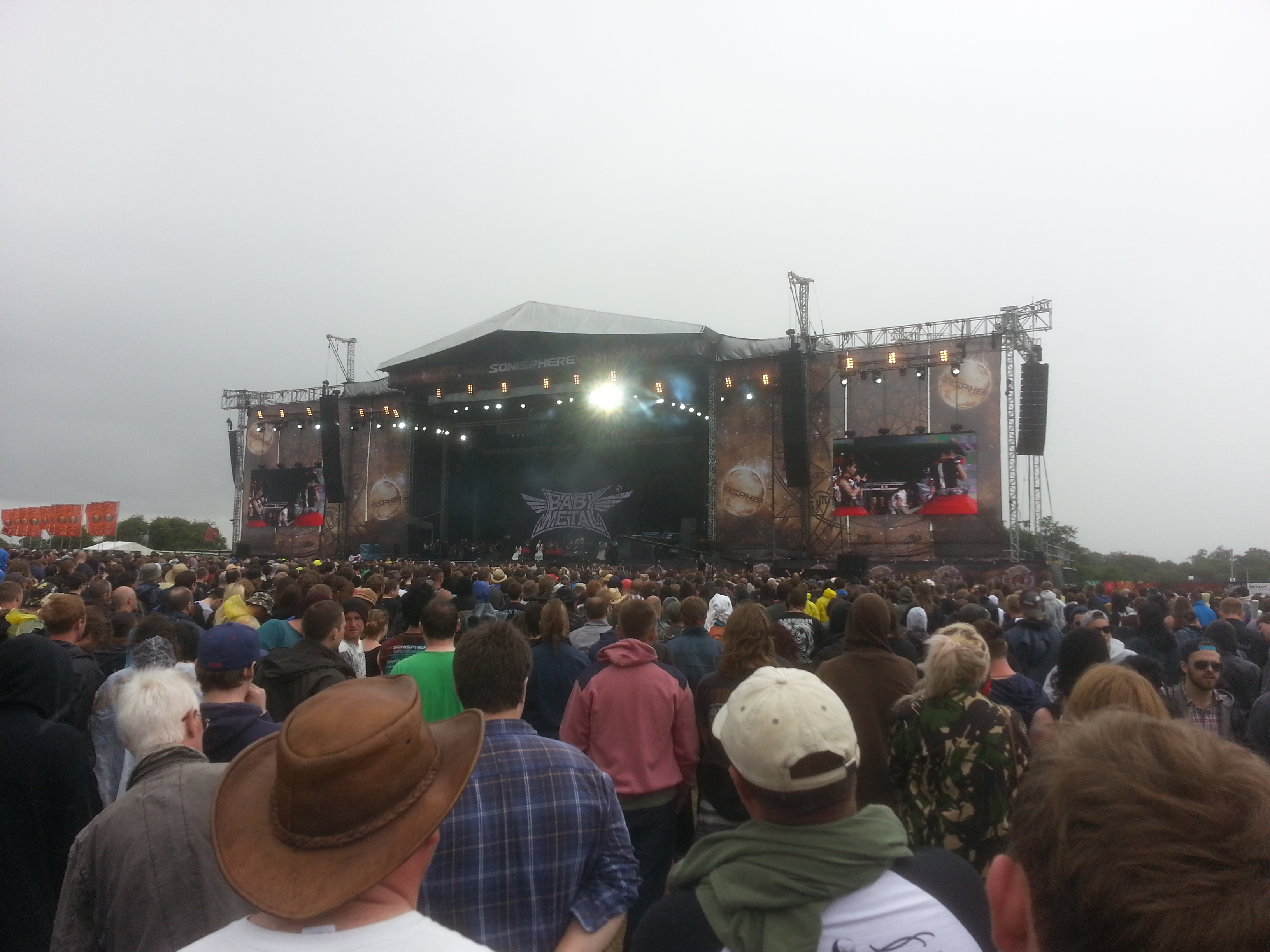 BabyMetal in Sonisphere 2014 in the United Kingdom